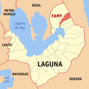 Locator map of Famy in Laguna, Philippines.